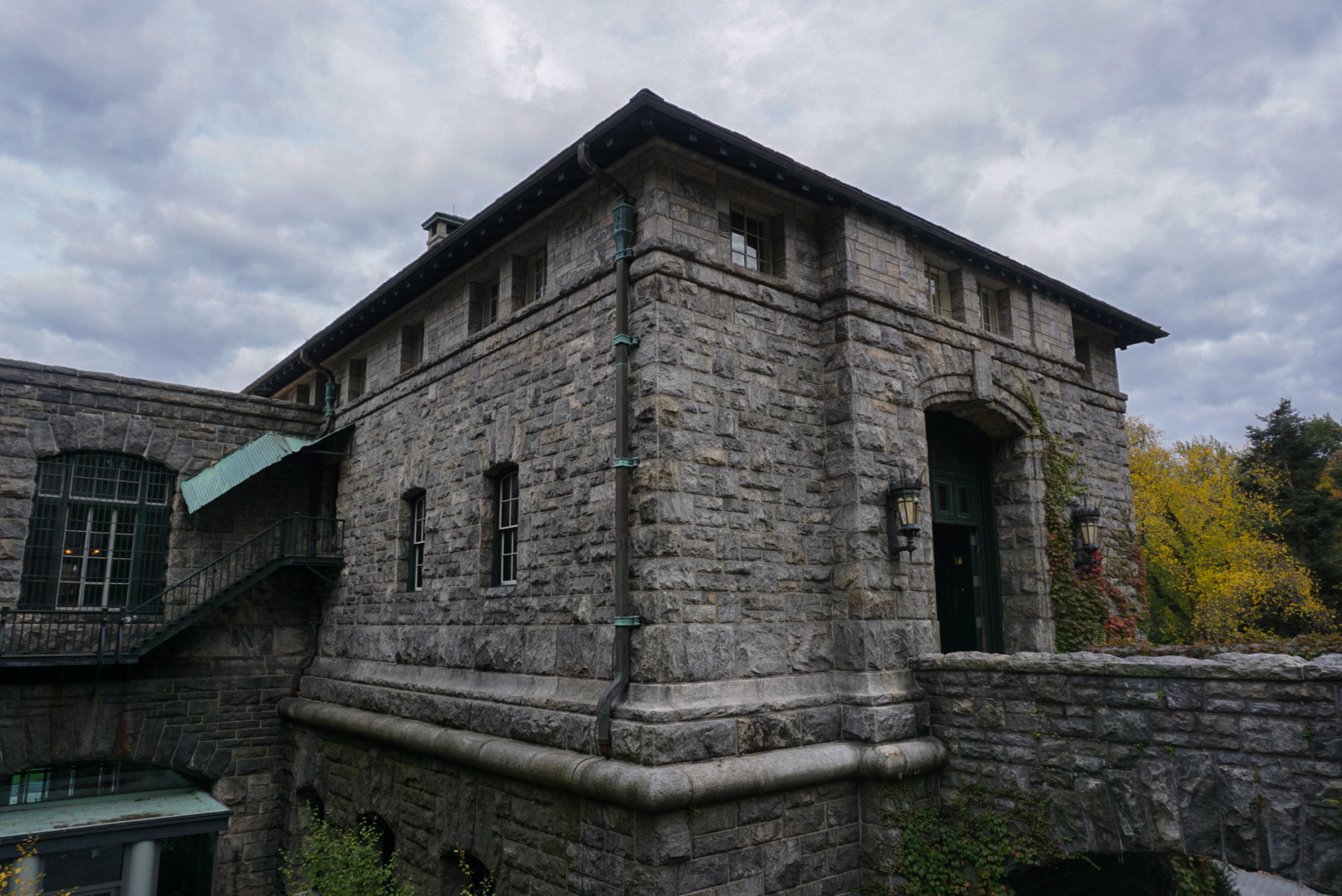 Went back to Kykuit in Mount Pleasant on October 23. I have more photos but it seems the cat already has tons of ok ones.